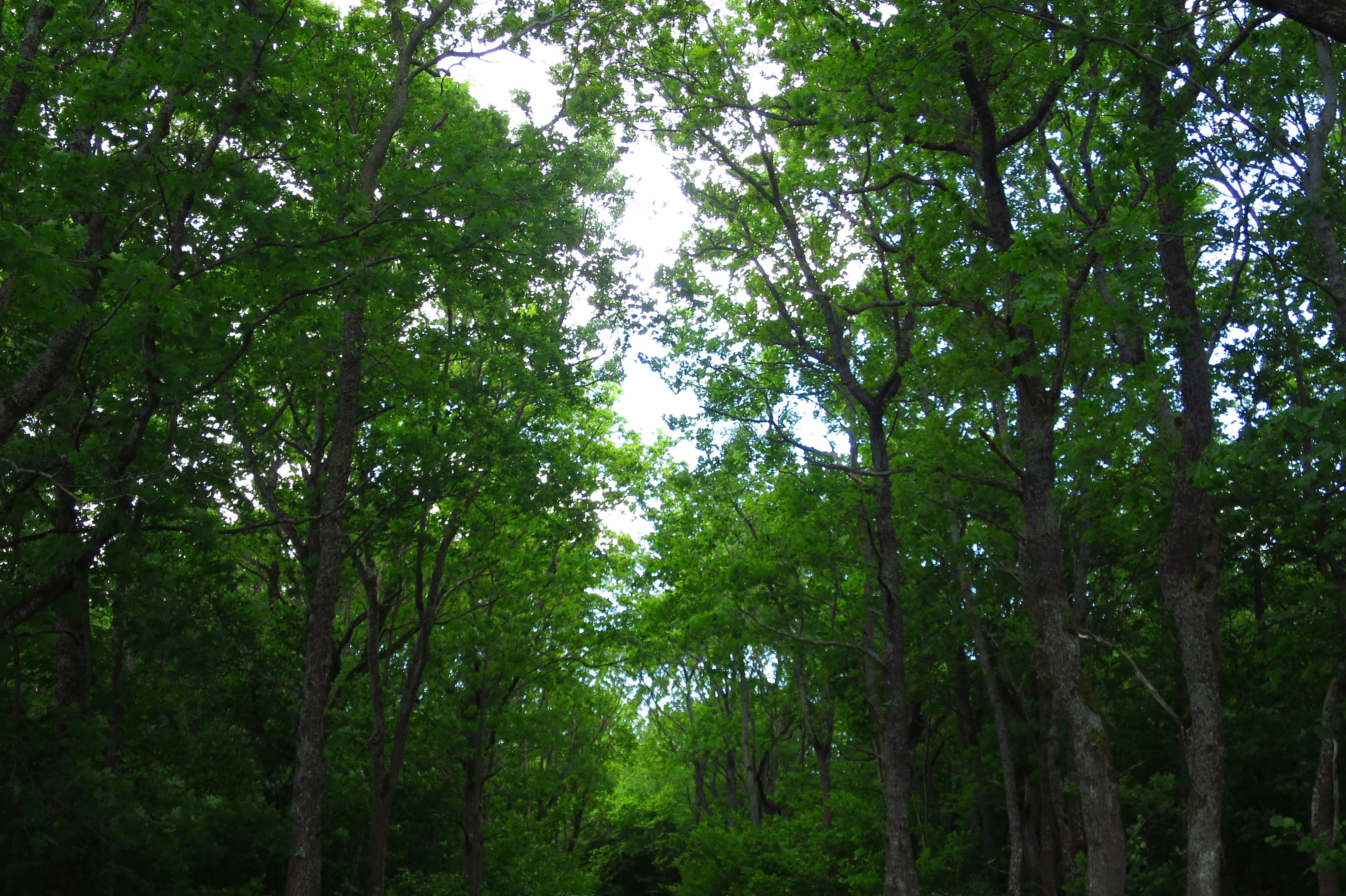 Salumets Kübassaare MKAl